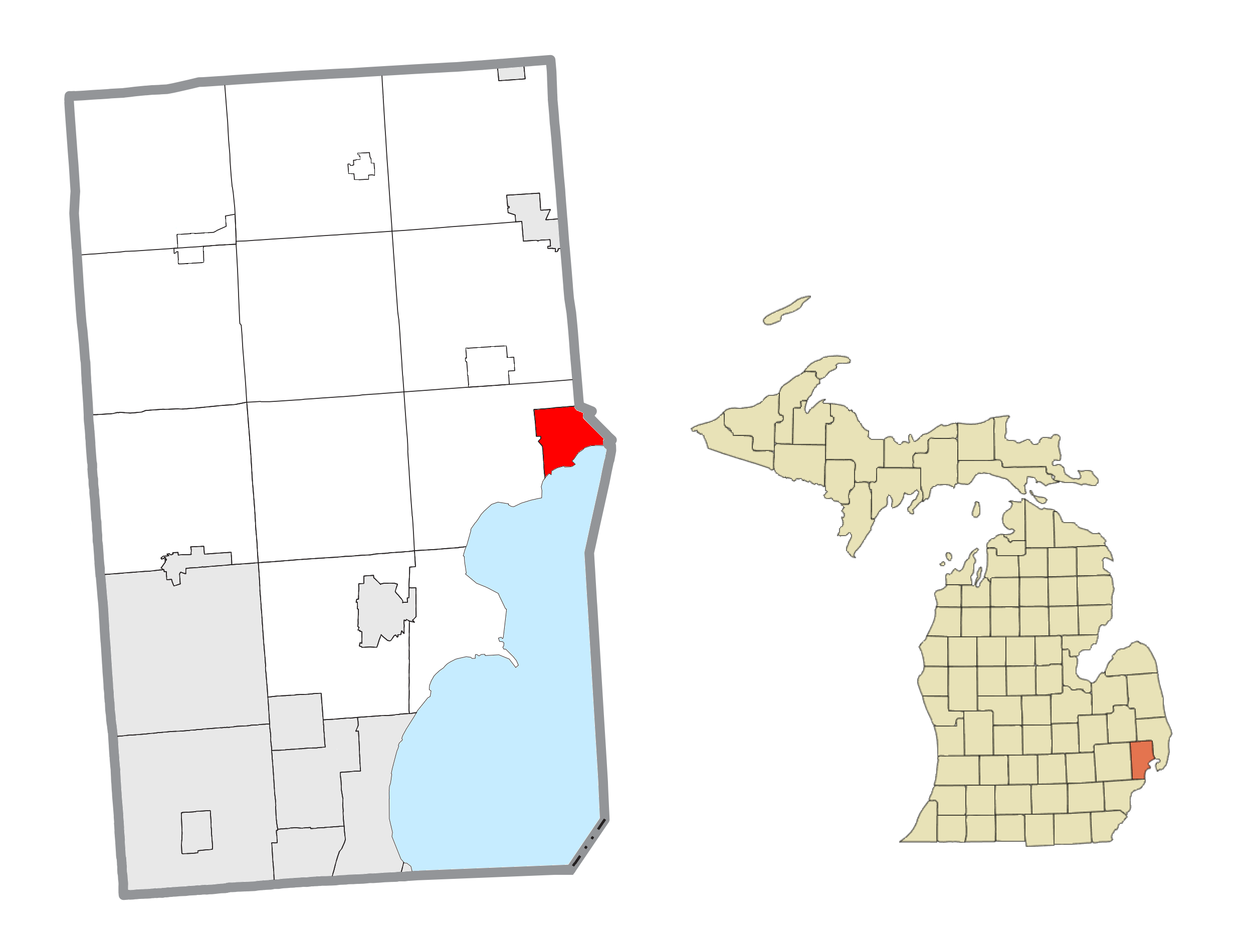 New Baltimore, MI